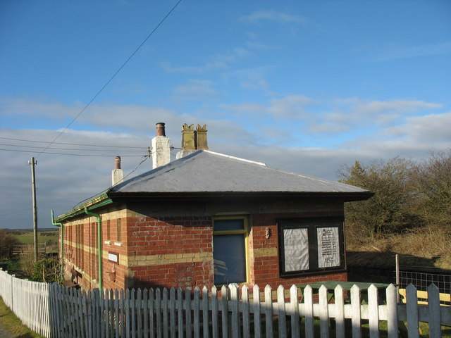 The former station at Llangwyllog Llangwyllog, the first station north of Llangefni on the Central Anglesey Railway (later LNWR and LMS) was opened in 1864, the same year as the railway. Passenger services on the line ceased in 1964, but freight trains ran until 1993. The line is currently mothballed. The station building has been converted into a house.